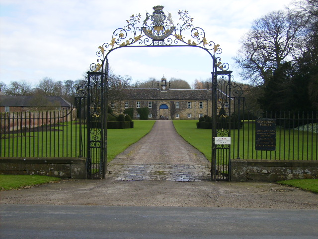 The ornate gated entrance to Newburgh Priory.